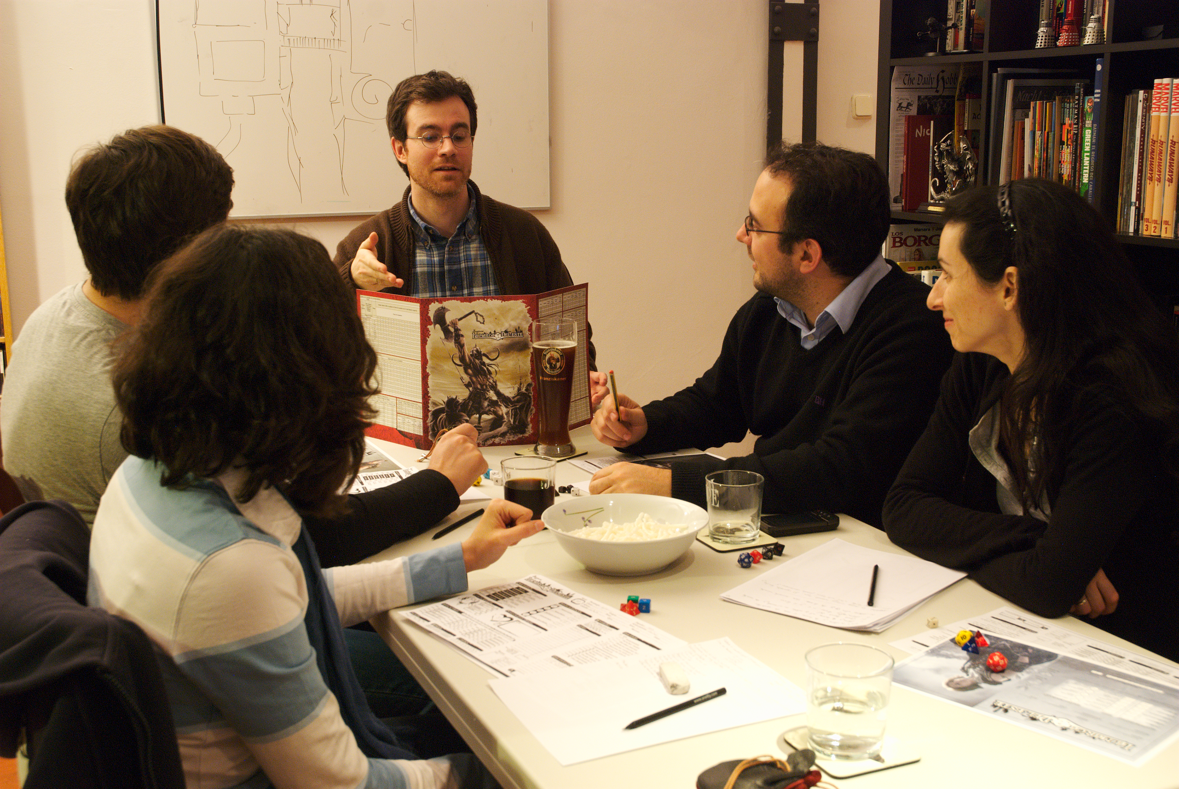 A group of role playing gamers, enjoying a night session. Dice, snacks, beverages, character sheets and a private house combined to offer a traditional pen & paper RPG experience. [This photo was taken and published with the consent of all five identifiable subjects]